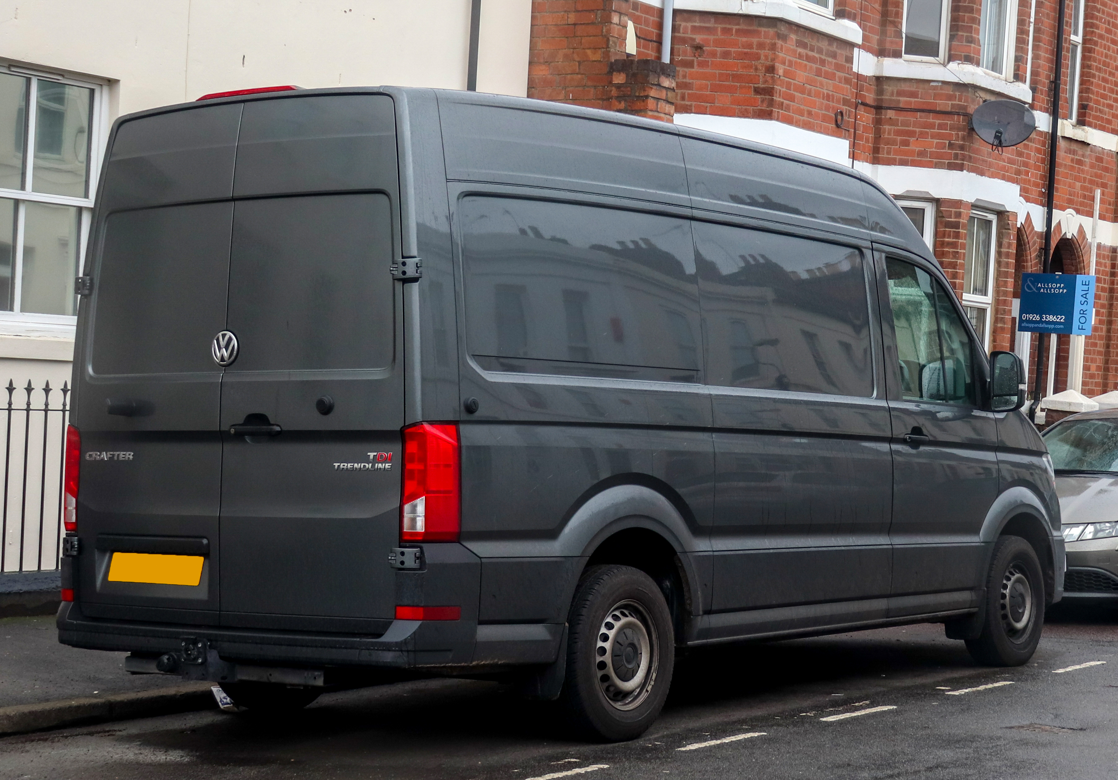 2017 Volkswagen Crafter CR35 Trendline TD 2.0 Rear Taken in Leamington Spa